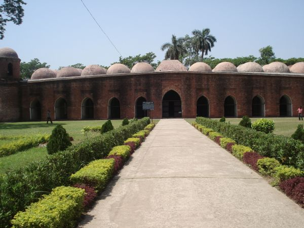 Bangladesh has three world heritage sites. The Shat Gombuj Mosque in Bagerhat is one of them. It is a 15th century Islamic edifice situated in the suburbs of Bagerhat (a district in Khulna Division), on the edge of the Sundarbans, some 175 km south west of Dhaka, the capital of Bangladesh. It is an enormous Moghol architectural site covering a very large area (160 x 108) square feet. The mosque is unique in that, it has sixty pillars, which support eighty one (81) exquisitely curved domes that have worn away with the passage of time. The structure of the building also represents the 15th century Turki architectural view.